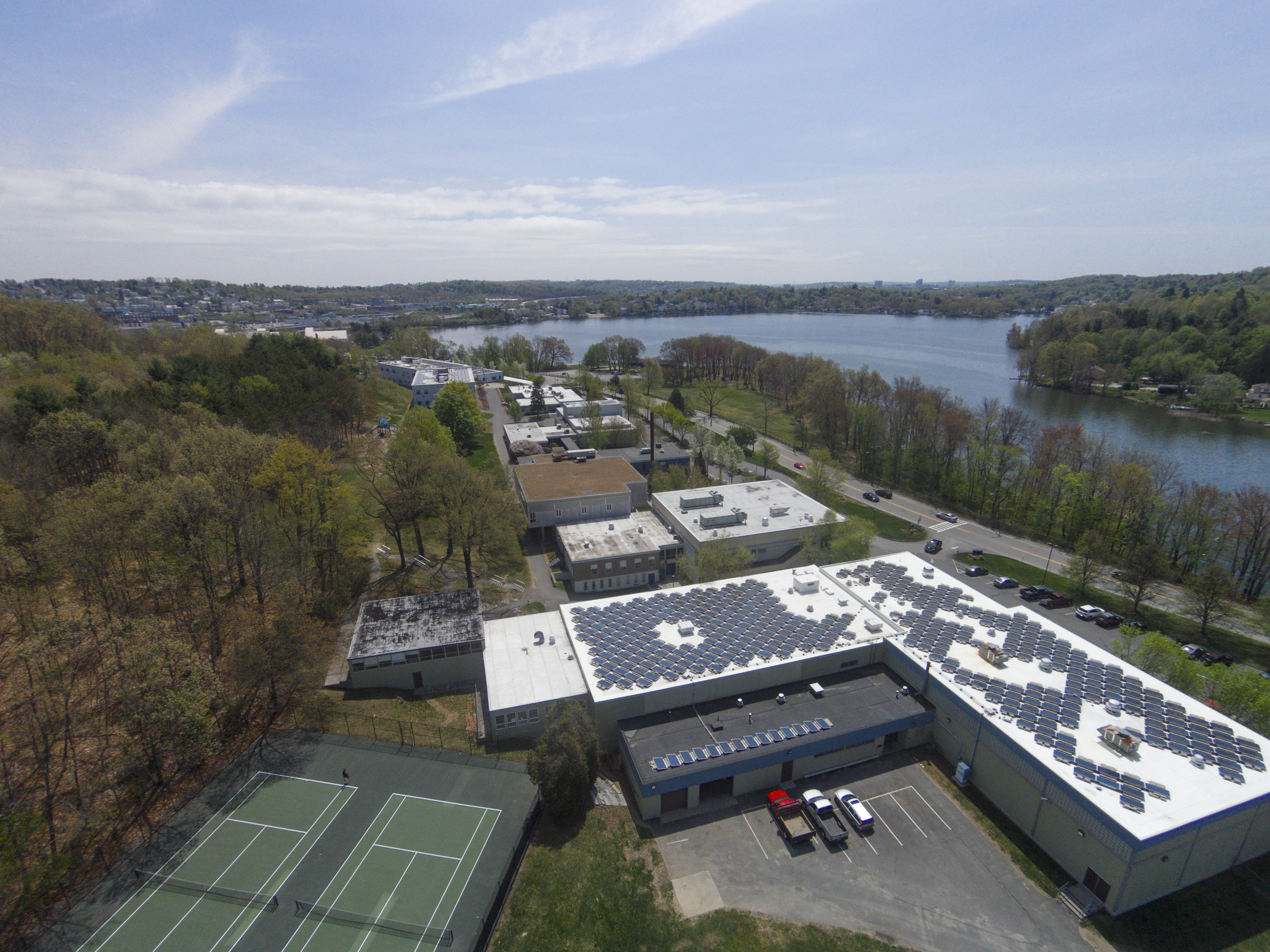 A Picture from the air of the Bancroft School